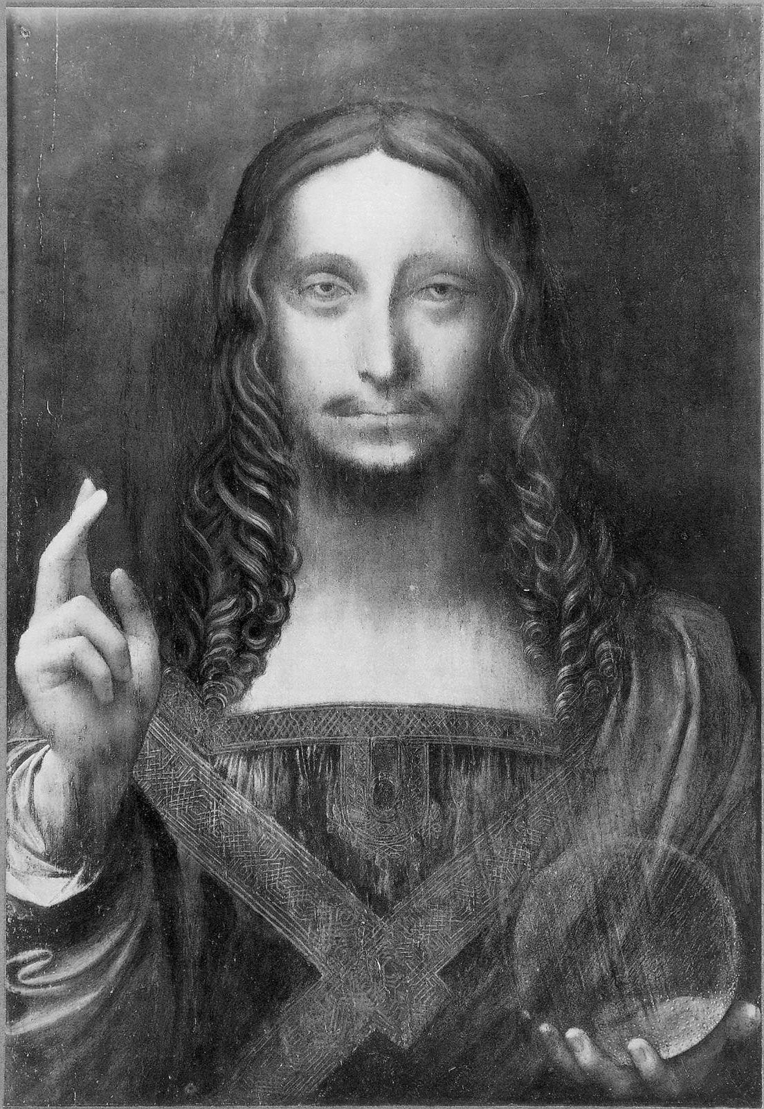 Leonardo da Vinci, Salvator Mundi. (Black and white photographic reproduction) The painting was sold at Christie's New York, November 15, 2017, for $450.3 million, making it the most expensive painting ever sold.